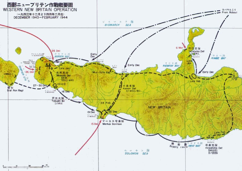 Western New Britain Operation, December 1943-February 1944